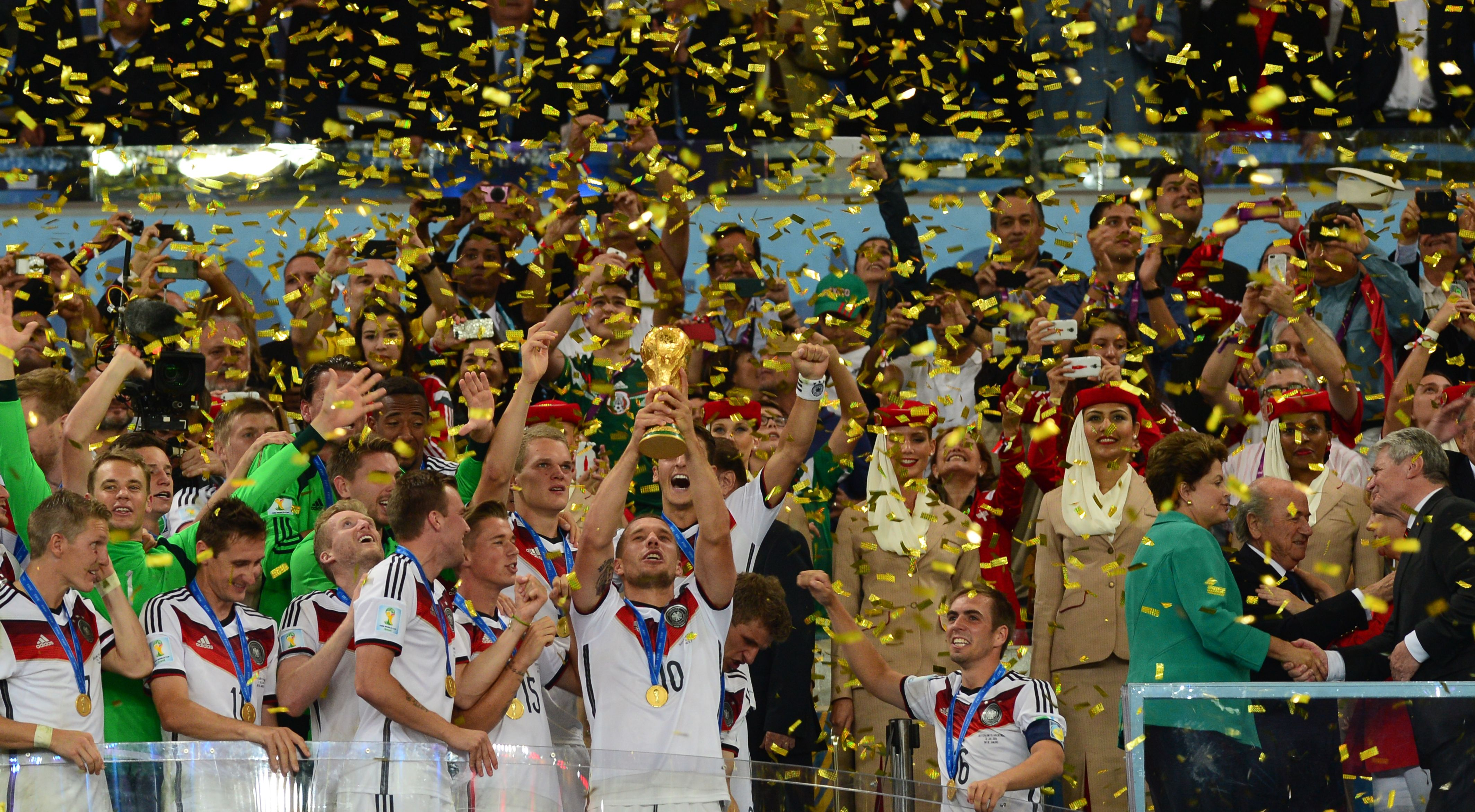 Award ceremony of the World Cup in Brazil